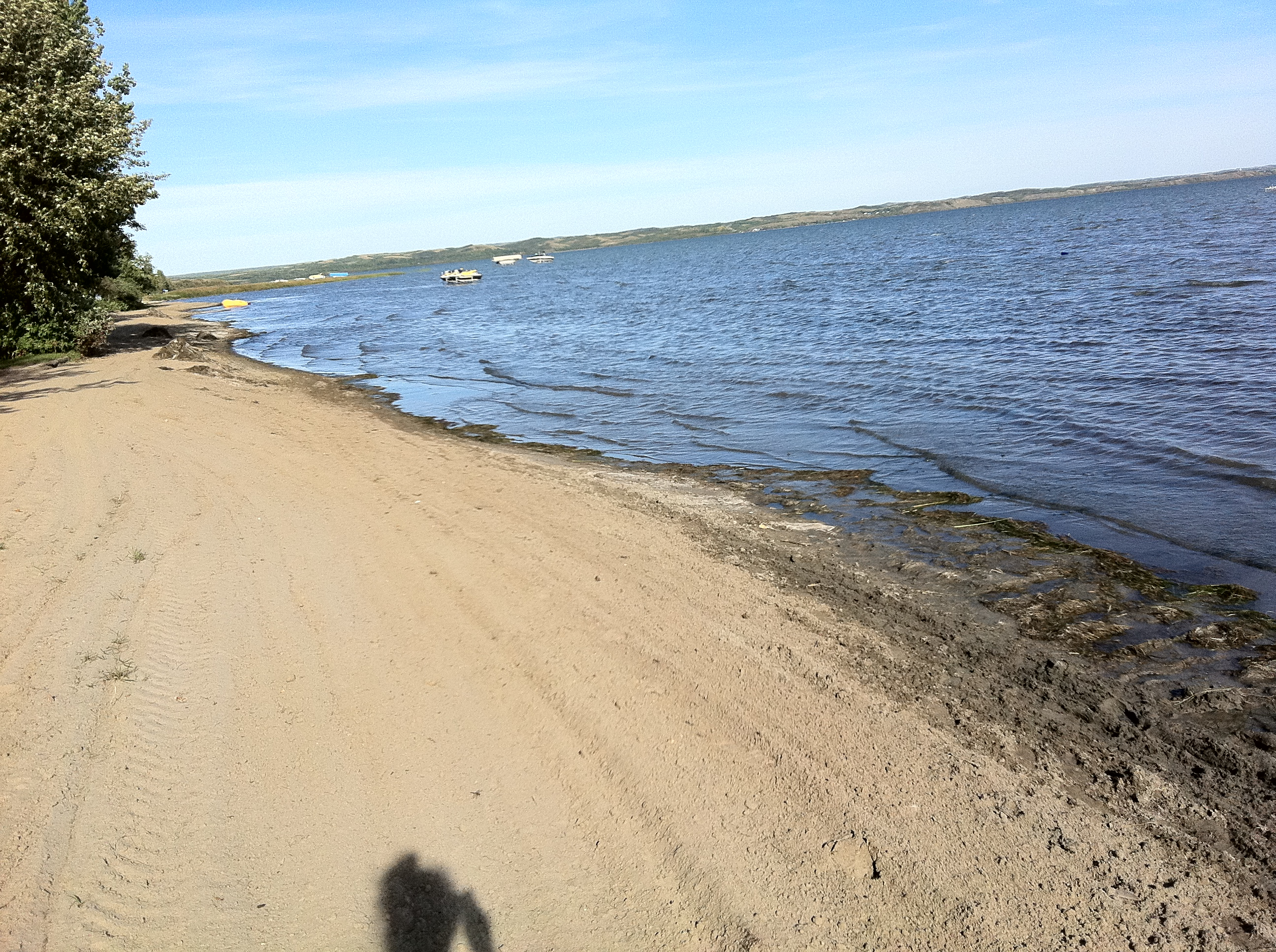 Beach view from the northwest shore of Jackfish Lake, SK.